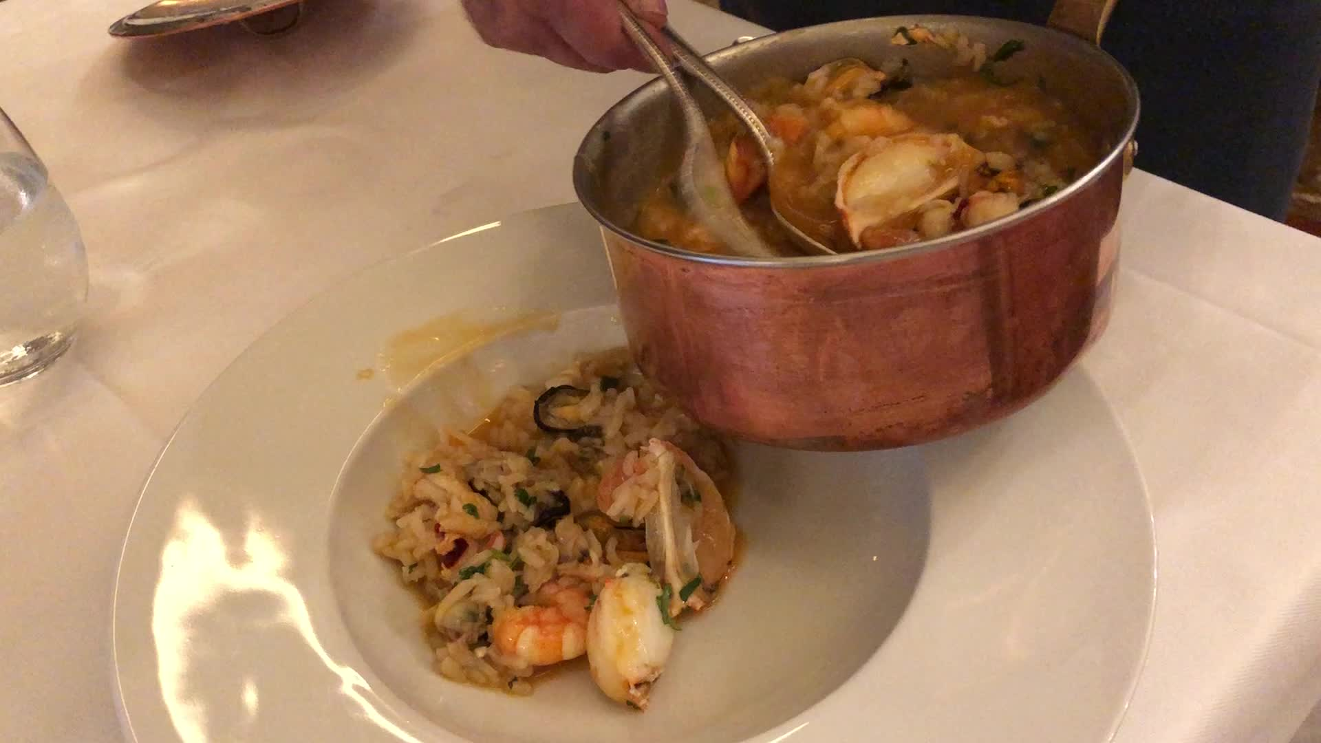 Lisbon, Portugal